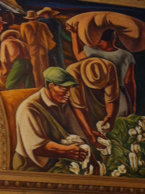 Close-up of Howard Cook's fresco "The Importance of San Antonio in Texas History" in the lobby of the Hipolito F. Garcia Federal Building, San Antonio, Texas. The 750 square foot fresco was painted between 1937 and 1939 by commission of the Treasury Department's Fine Arts Section.